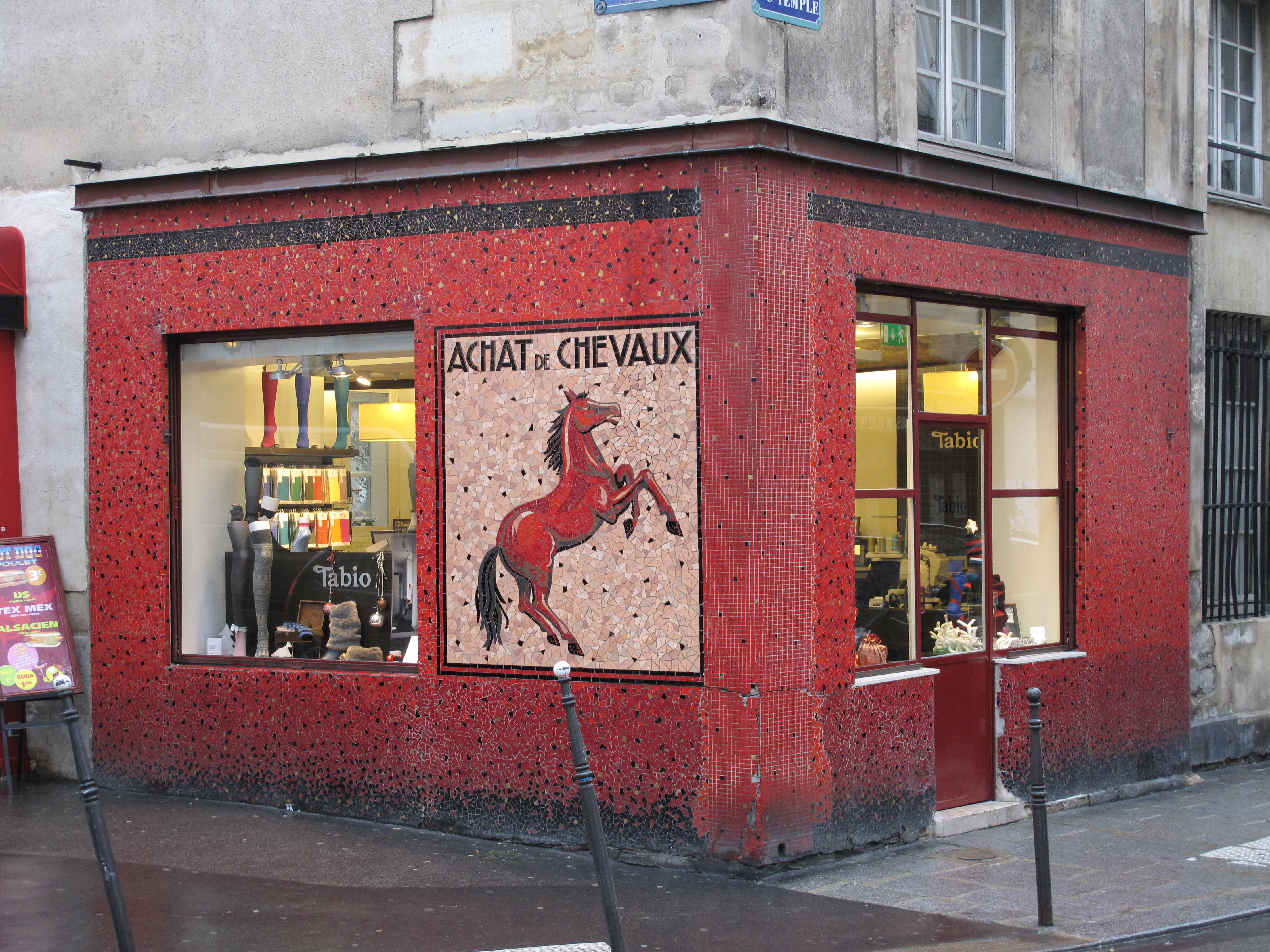 Former horse butcher's shop at the corner of the rue Vieille-du-Temple and rue du roi-de-Sicile, Paris 4th arr. Now clothing shops